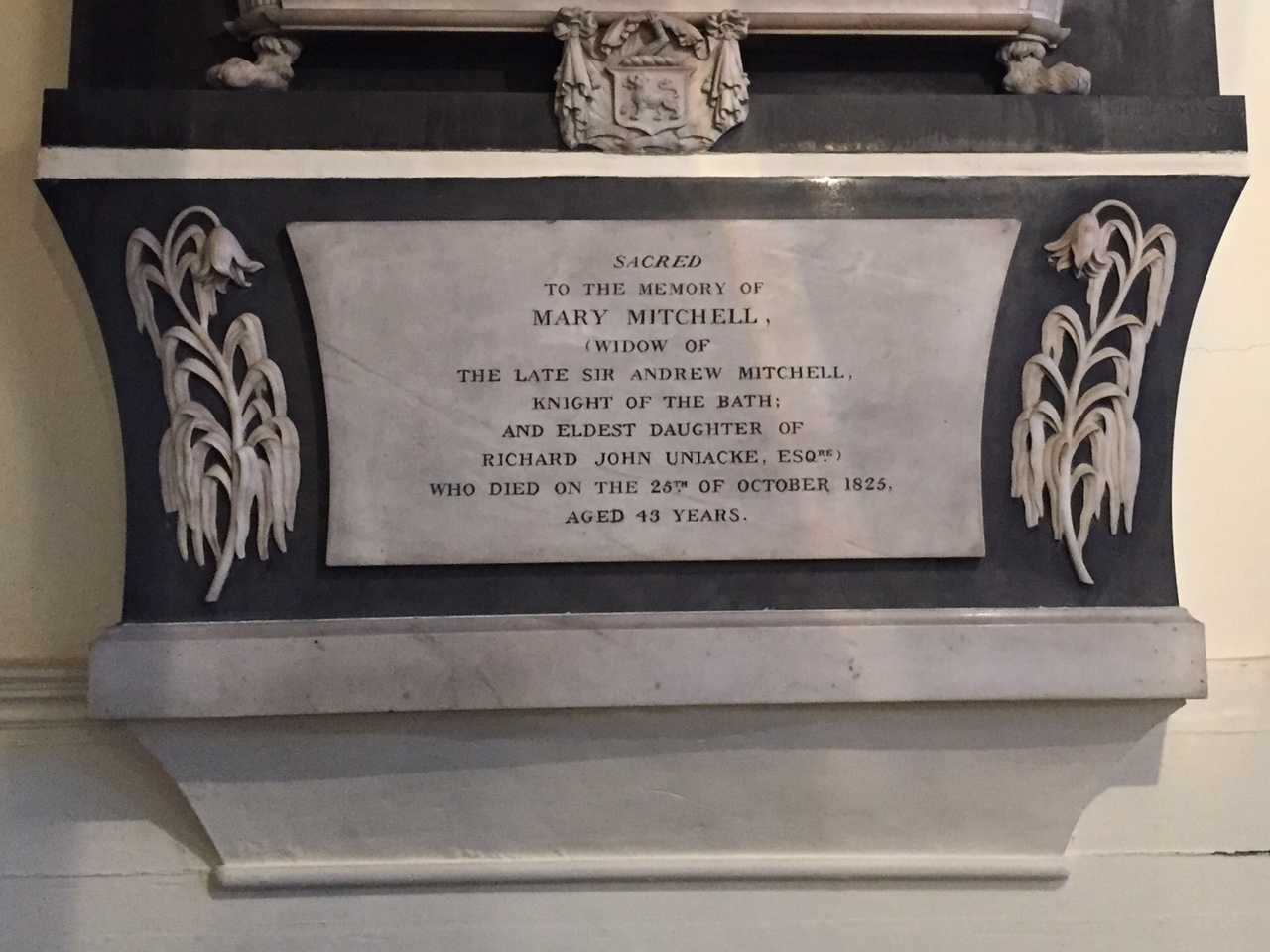 Mary Mitchell, St. Paul's Church, Halifax, Nova Scotia